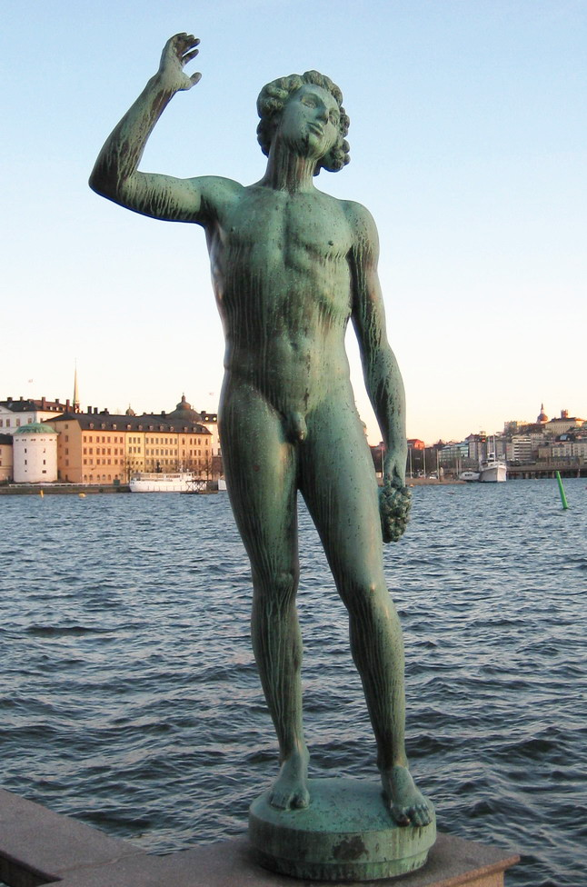 statue made of Carl Eldh 1928